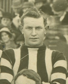 Photograph of Jack Lowe in 1912